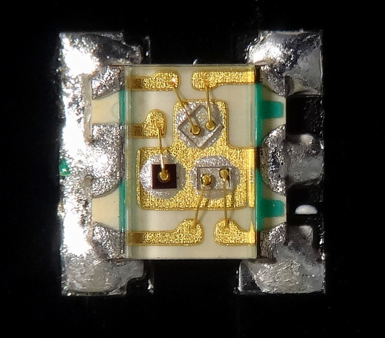 Very small, with size of only 1.6x1.6x0.35 mm R,G,B surface mount miniature LED package.